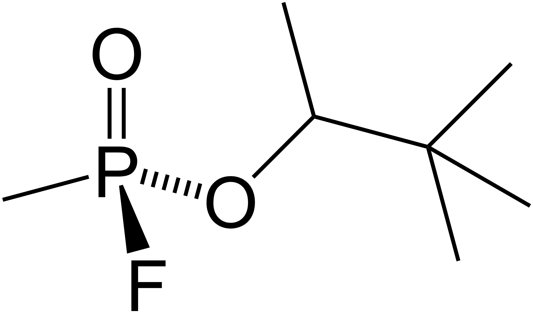 Soman structure